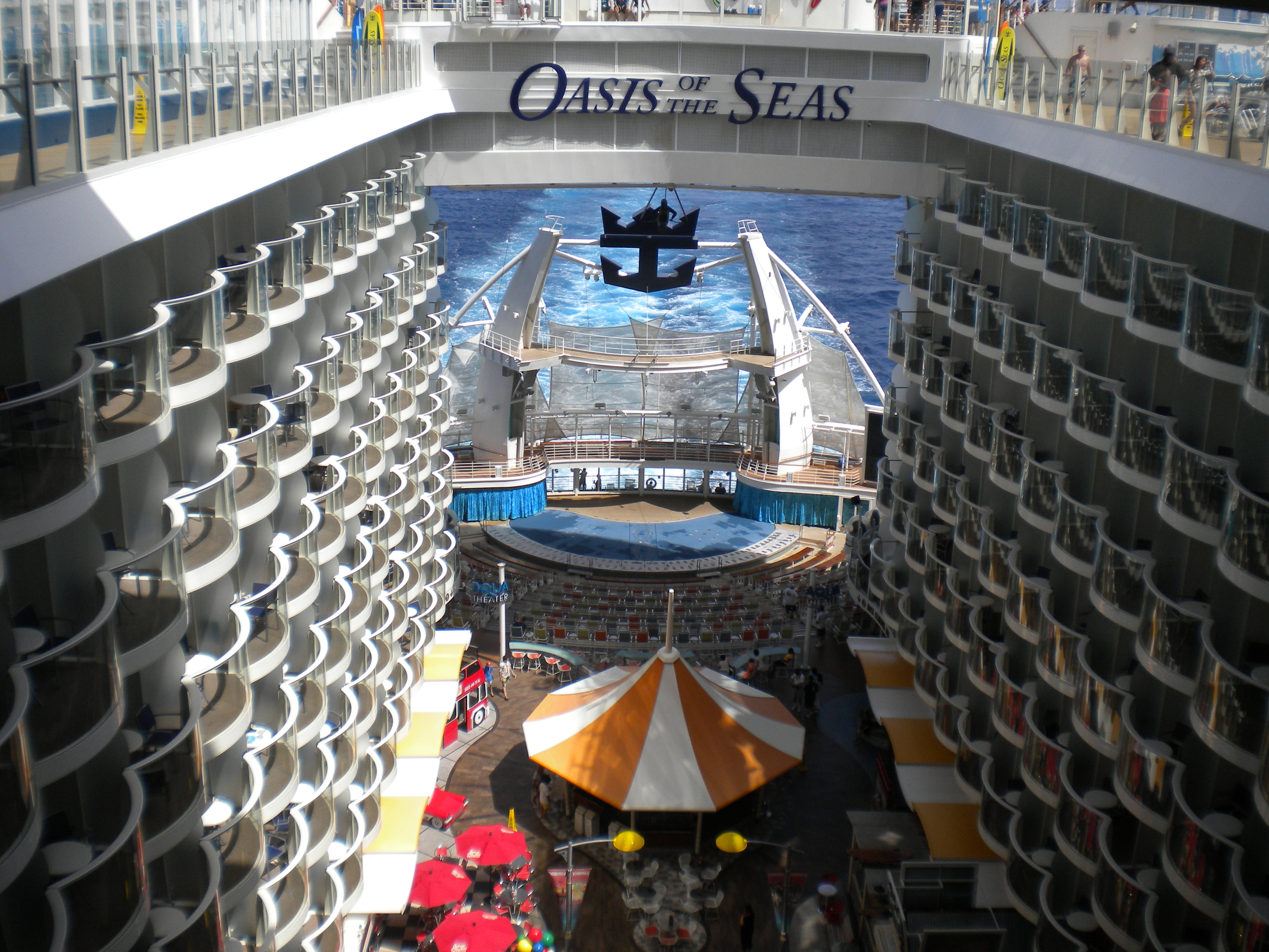 Oasis of the Seas - Aqua Theater amphitheatre - View from the up of the Boardwalk August 6th-13th 2011